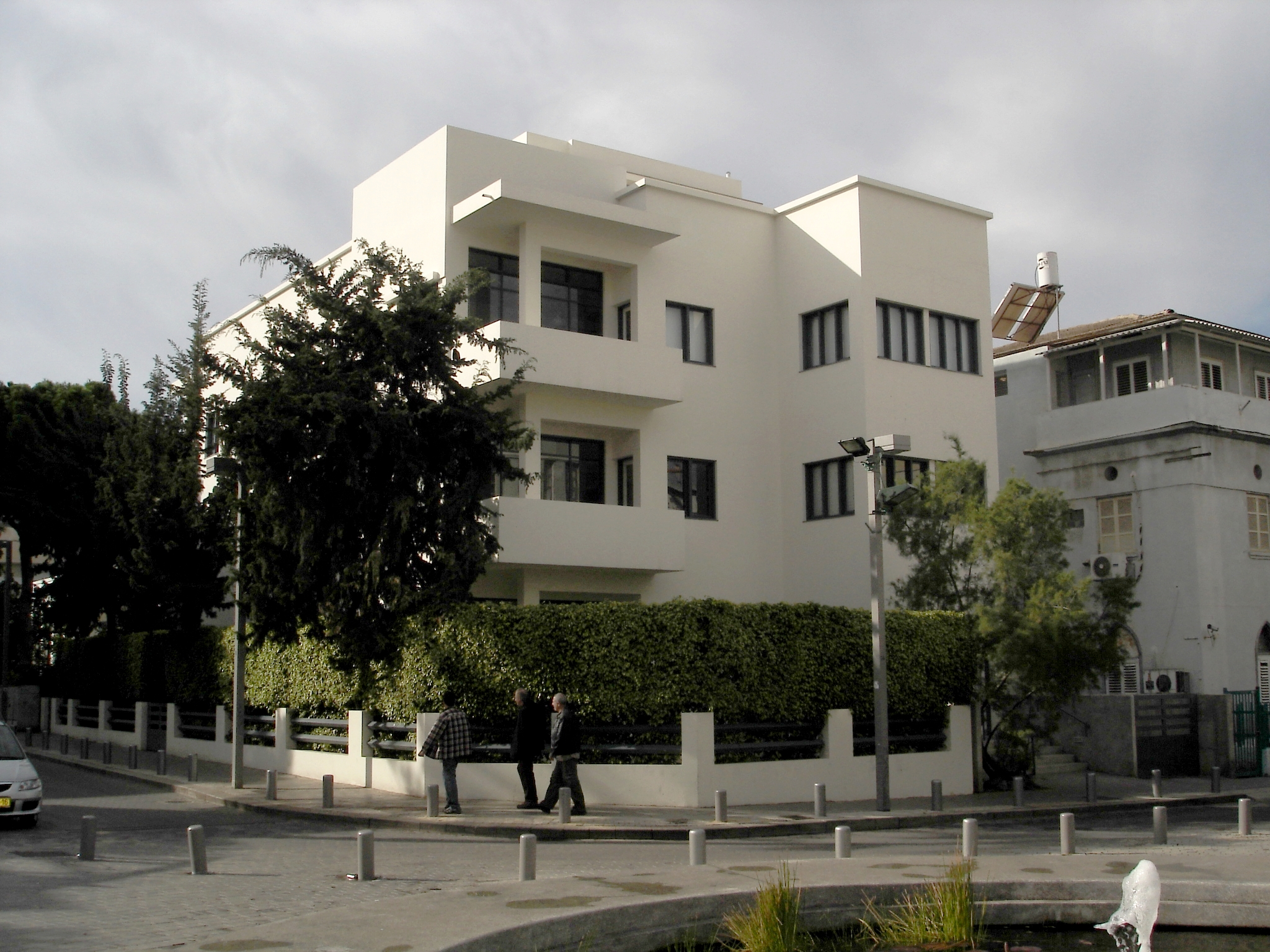 Shomo Yafe House, 21 Bialik St, Tel Aviv, built in 1935 by architect Shlomo Gepstein